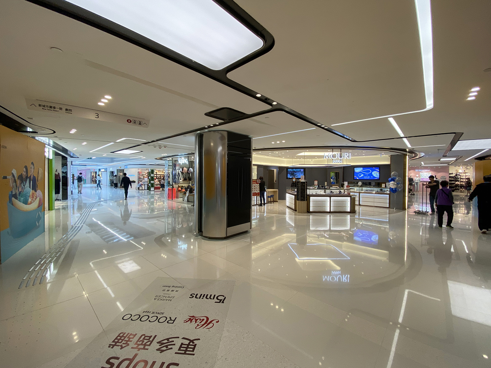 New Town Plaza Phase 3 L3 After renovation